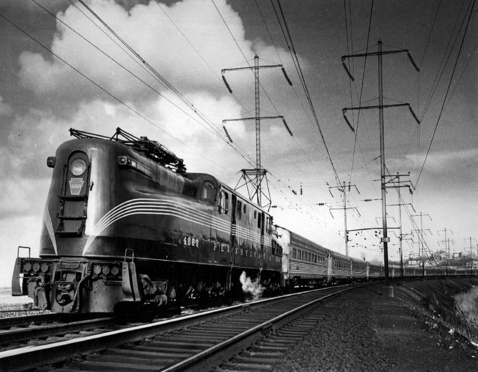 Photo of the Pennsylvania Railroad train "The Congressional", which traveled between New York and Washington, D.C. The train used an electric locomotive for power.